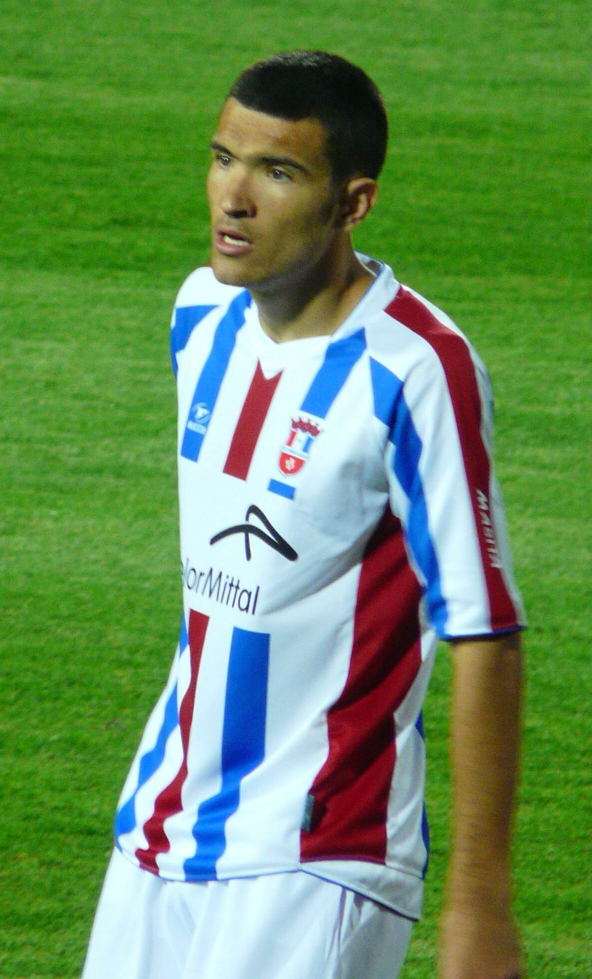 Alexandru Benga in September 2011, during Otelul - Oltchim